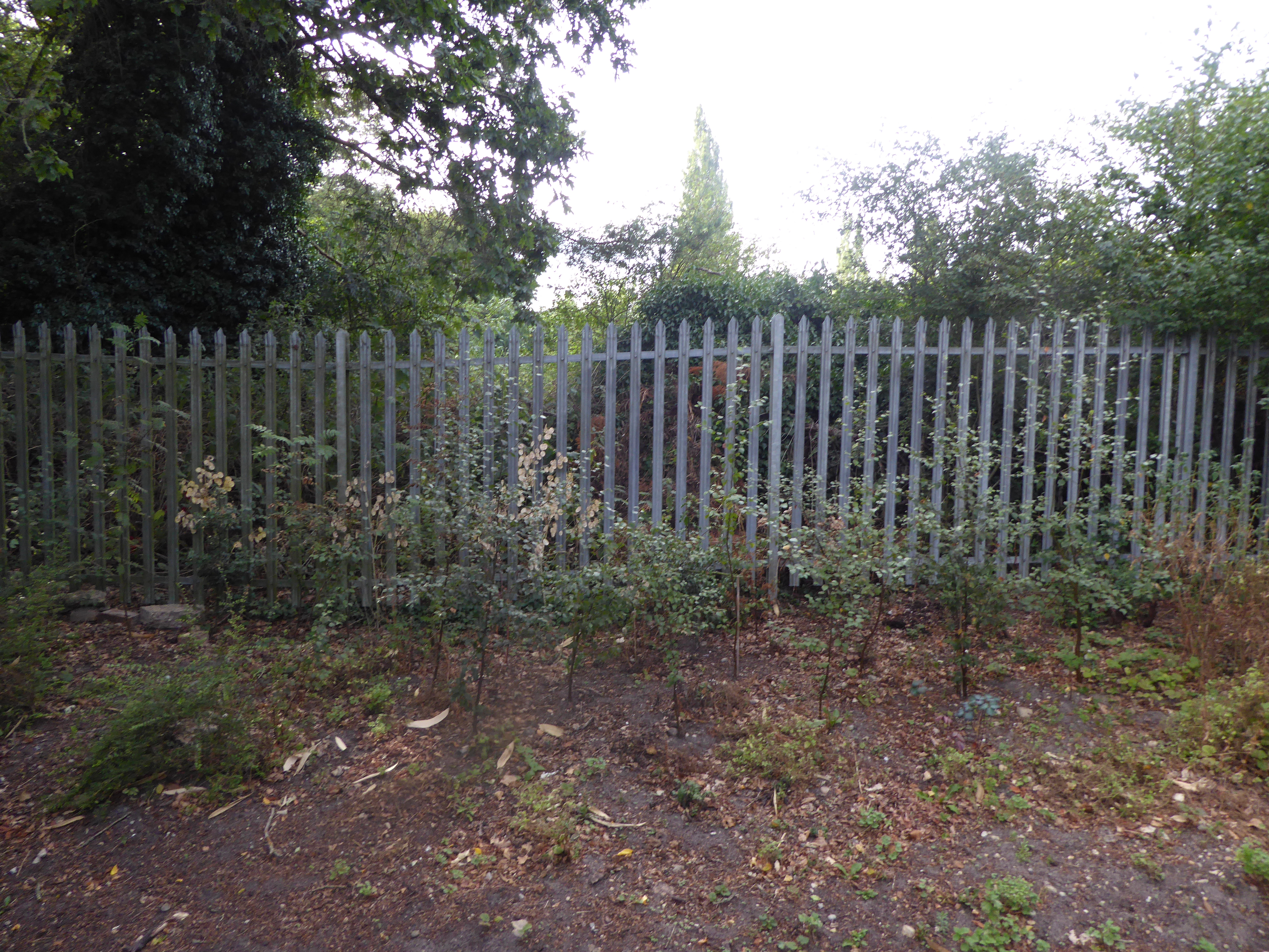 Eaton Chalk Pit is a Site of Special Scientific Interest on the southern outskirts of Norwich in Norfolk. It is in an area where there is no public access and the photo shows the fence around it.